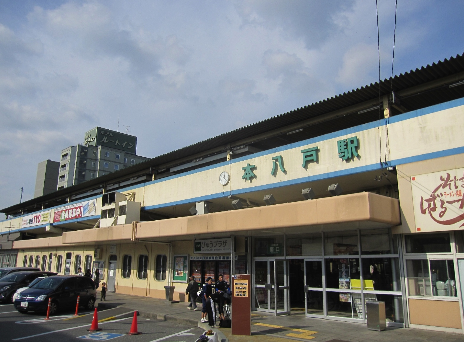 Hon-hachinohe station